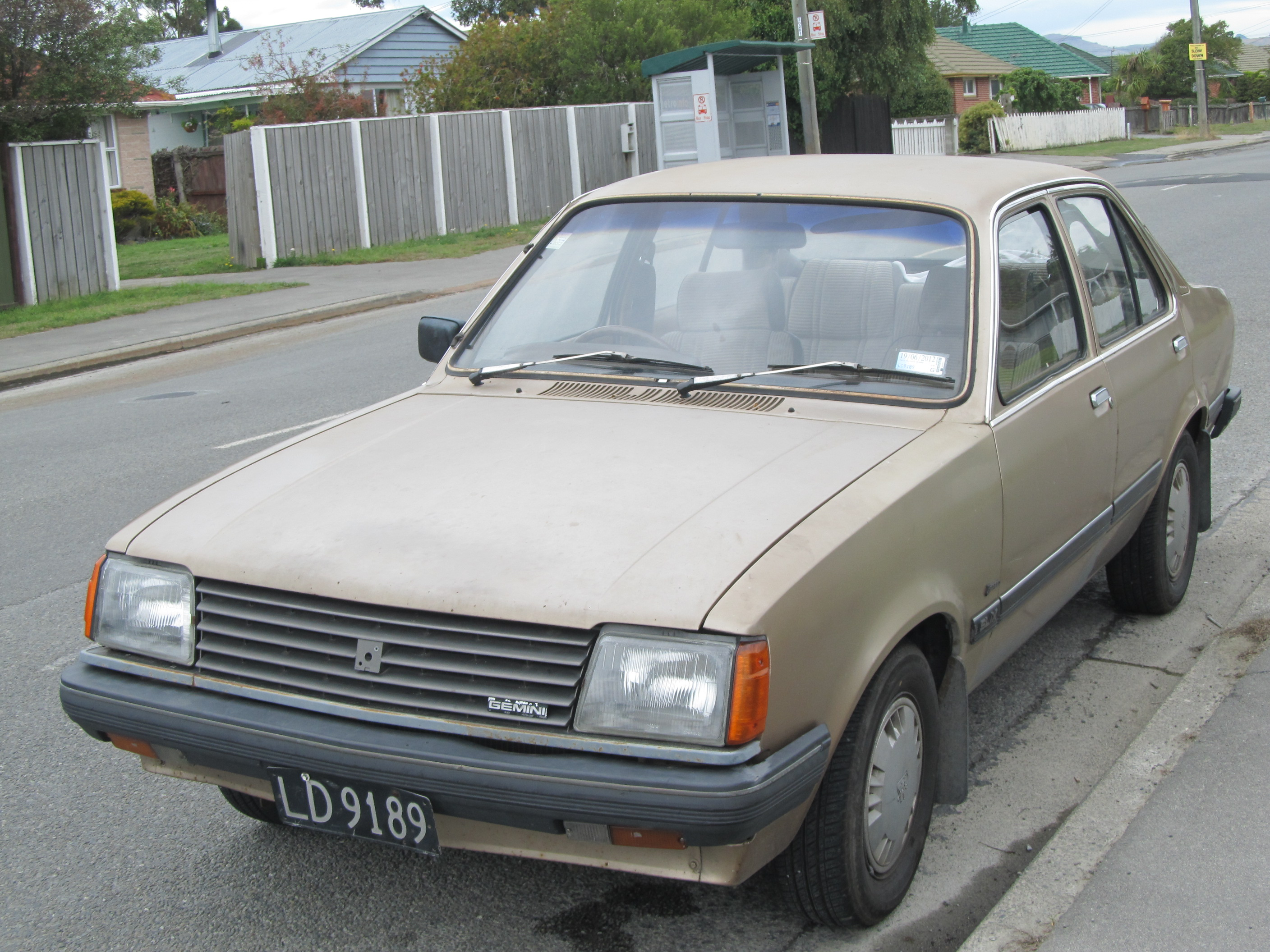 LD9189 These are gradually getting much rarer, so I thought this was worth a picture. Very original, unlike most Geminis which have been modified beyond recognition.